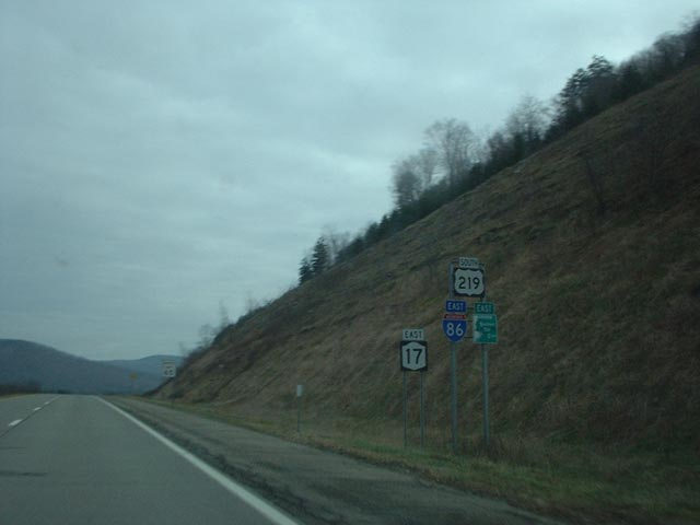 Eastbound on Interstate 86 and southbound on U.S. Route 219 near Salamanca, New York.